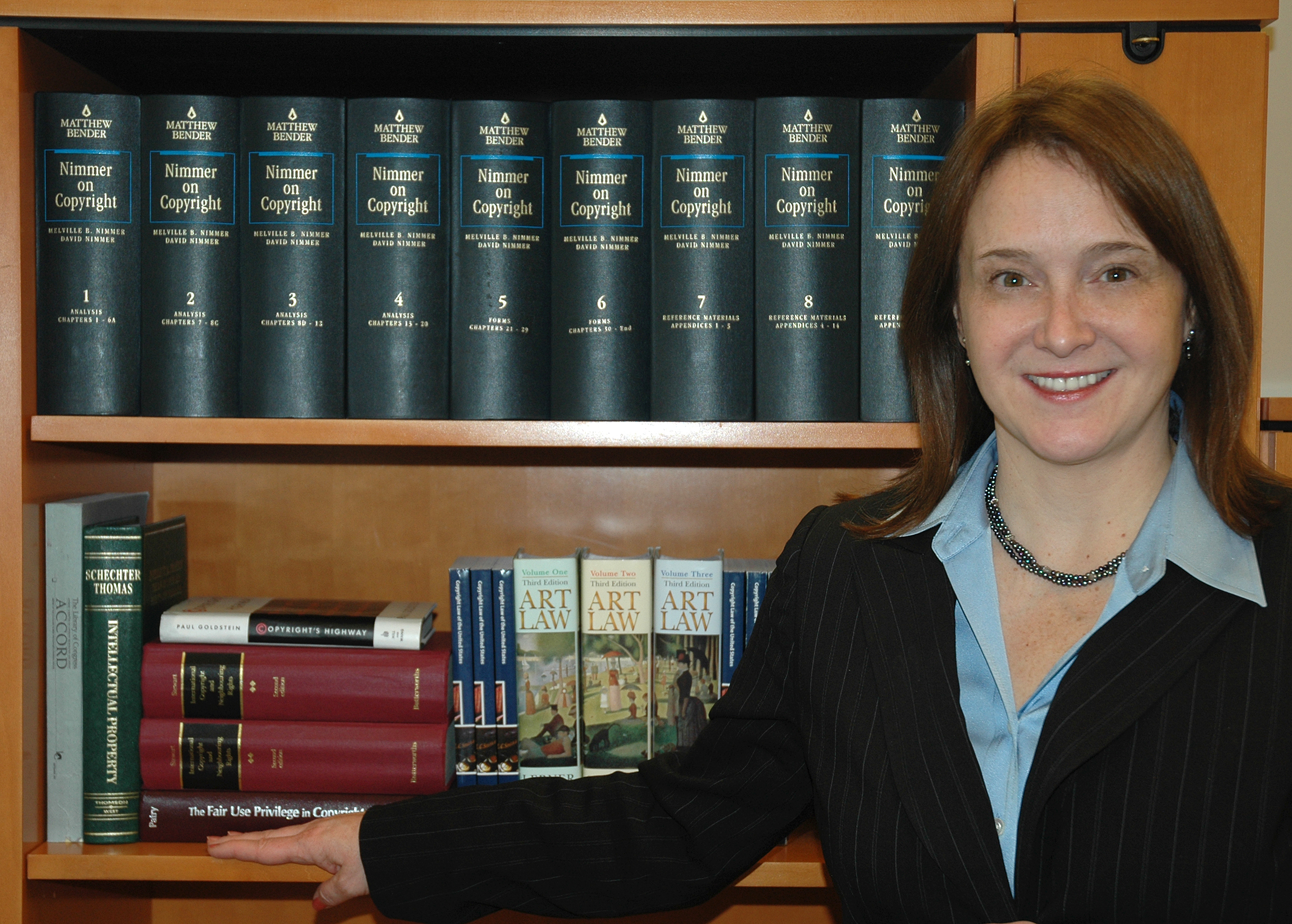 "Maria A. Pallante, senior adviser to the Librarian of Congress, has been appointed Acting Register of Copyrights, effective Jan. 1, 2011. She will serve until the next Register of Copyrights is selected and assumes the duties of the position.... A high-resolution photo of Ms. Pallante can be found at ." (